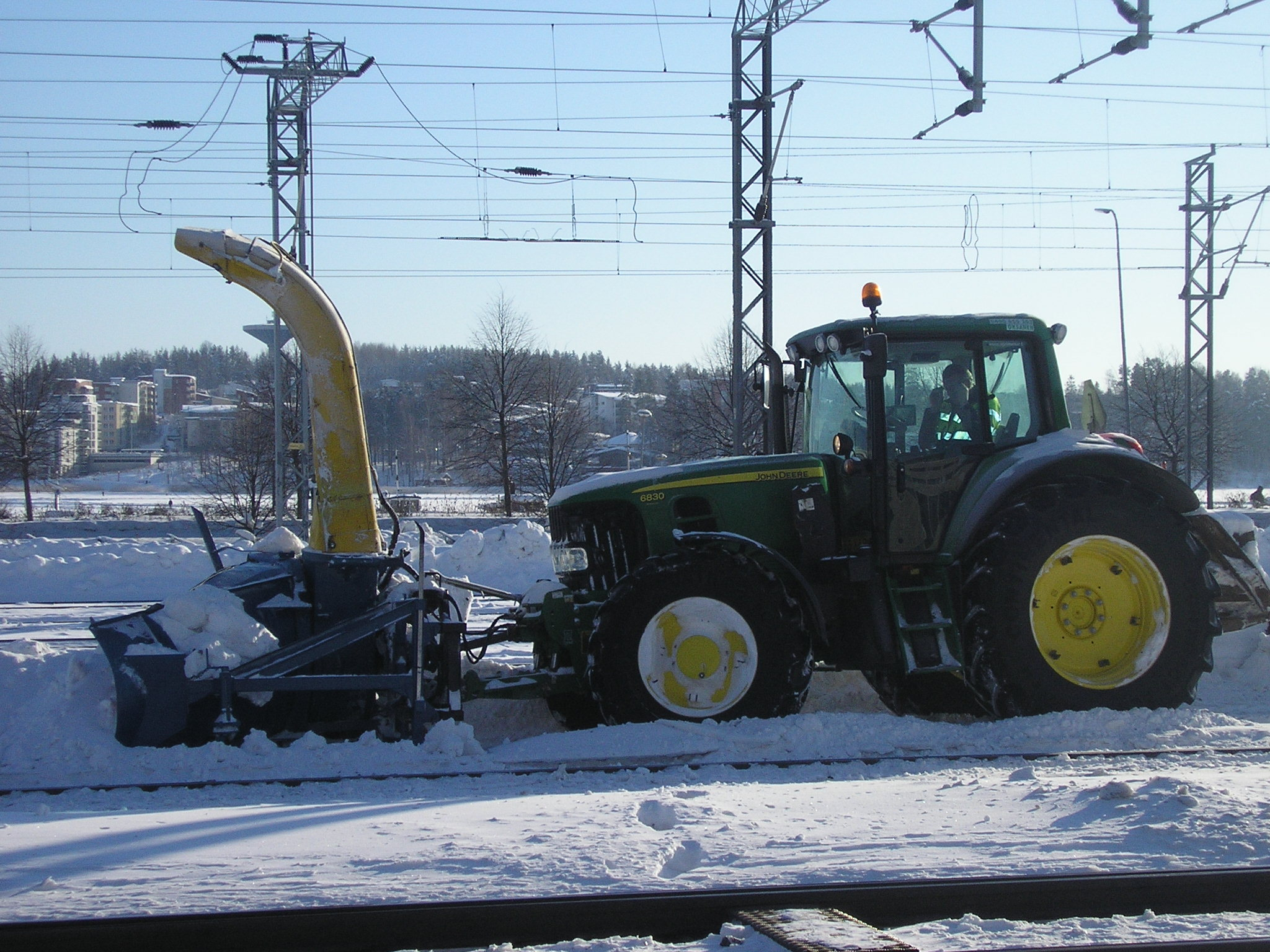 John Deere 6830 Premium tractor with a snow blower at Jyväskylä railway station, Finland